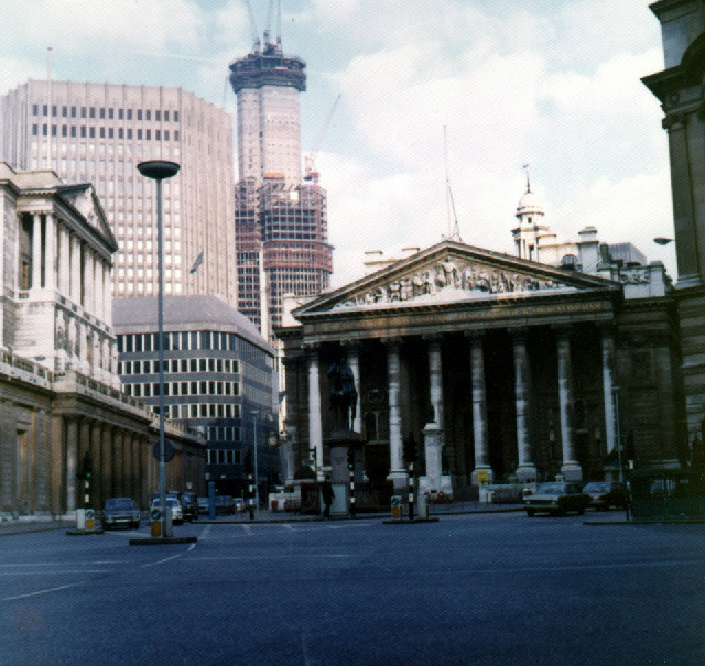 Bank and Royal Exchange c1974. View of Royal Exchange about 1974. Note NatWest Tower under construction in the background.